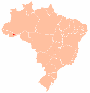 Location of Rio Branco in Brazil.